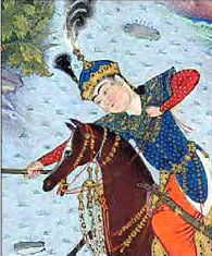 Painting of Tahmuras in The Shahnama of Shah Tahmasp